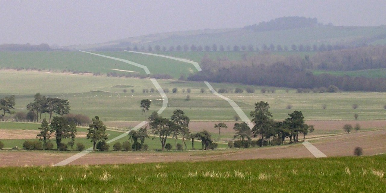 View northeast from Gussage Hill towards Bottlebush Down. The approximate course of the banks of the neolithic Dorset Cursus is superimposed on the photograph in white.